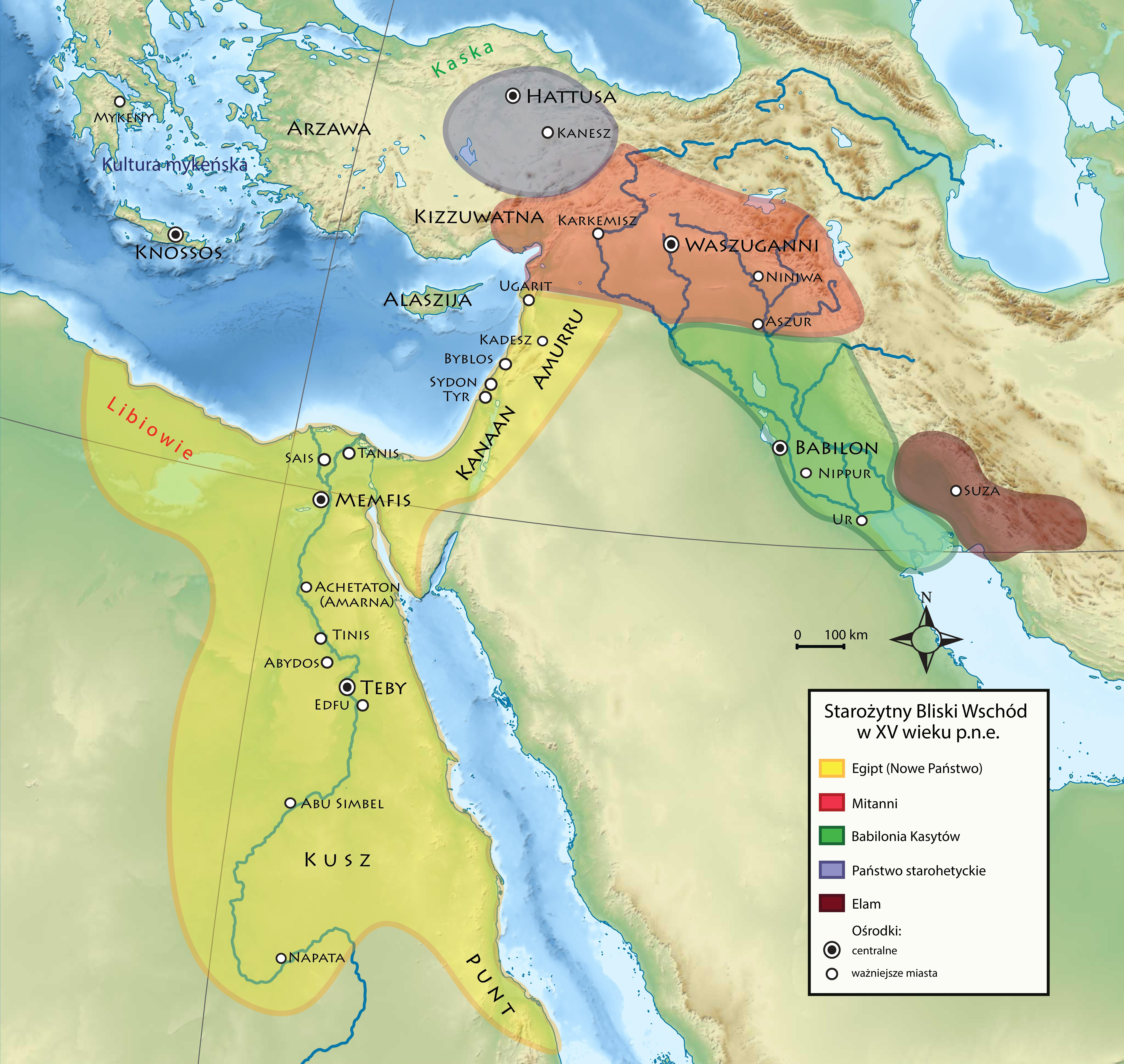 Ancient Middle East 1450 B.C.